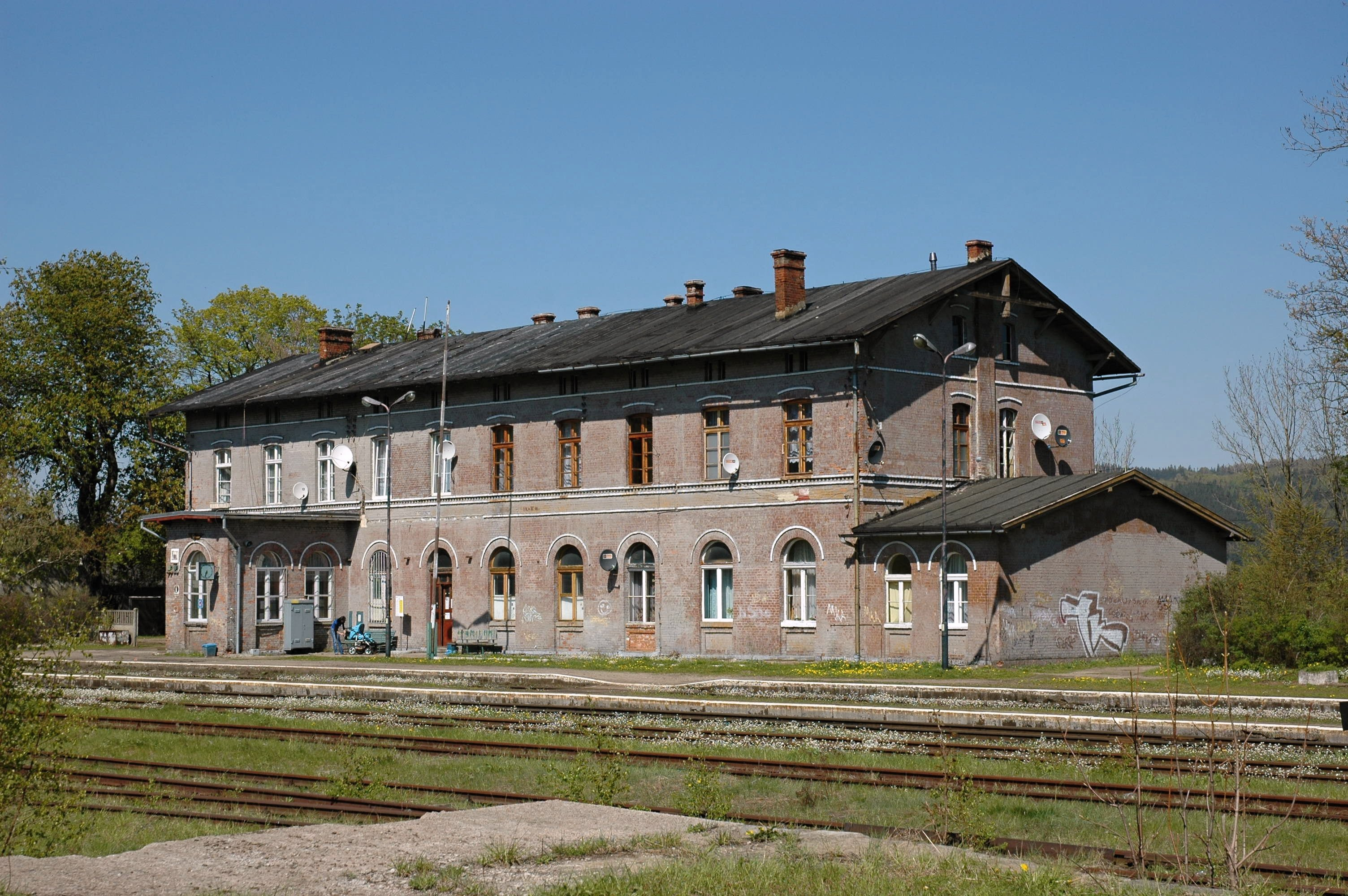 Głuszyca railway station, Poland